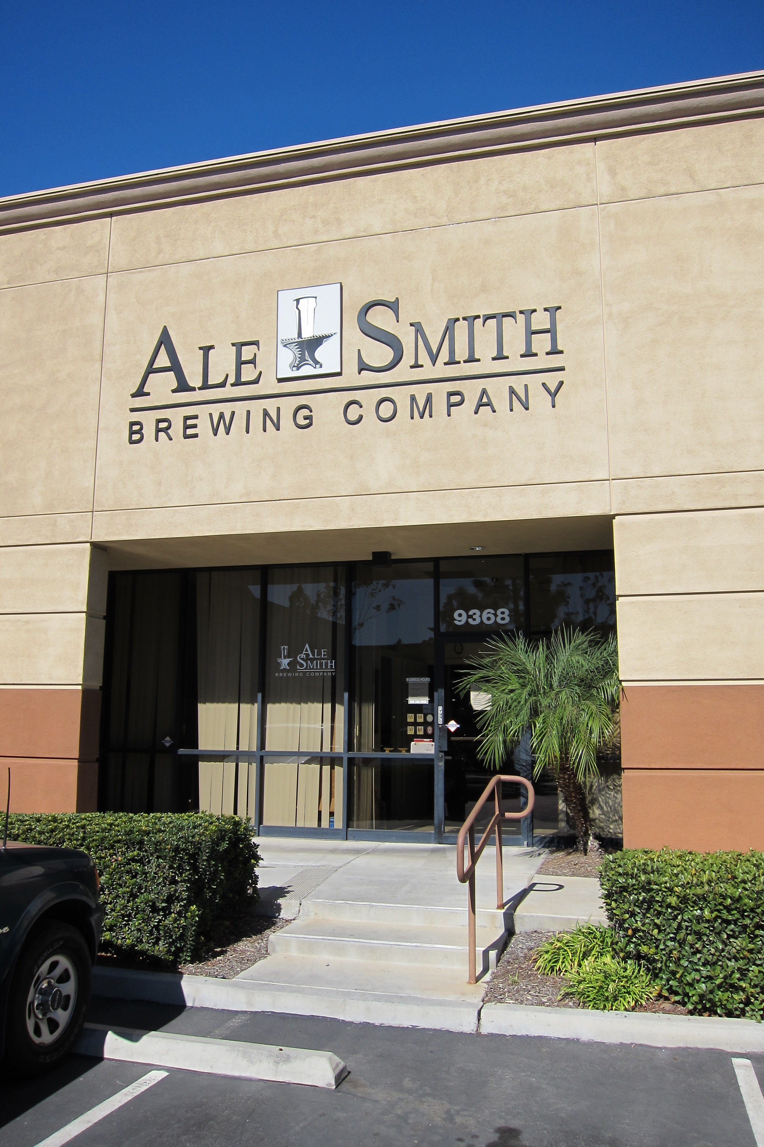 Entrance to AleSmith Brewing Company - AleSmith Brewing Company